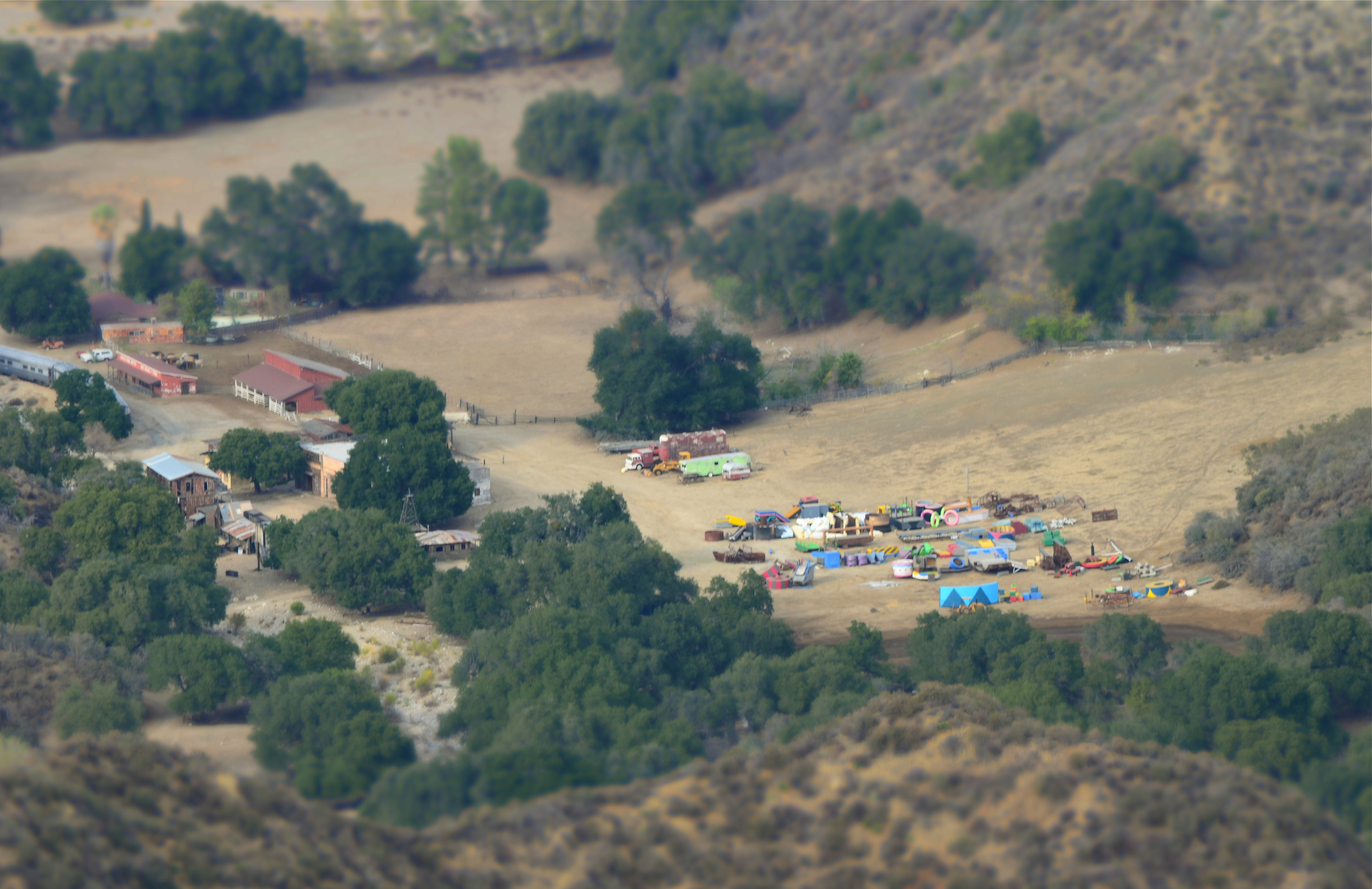 The storage area of the set of the ABC network television comically oriented obstacle course competition show Wipeout (2008–2014), as seen from above at Sable Ranch in Canyon Country, Santa Clarita, California.